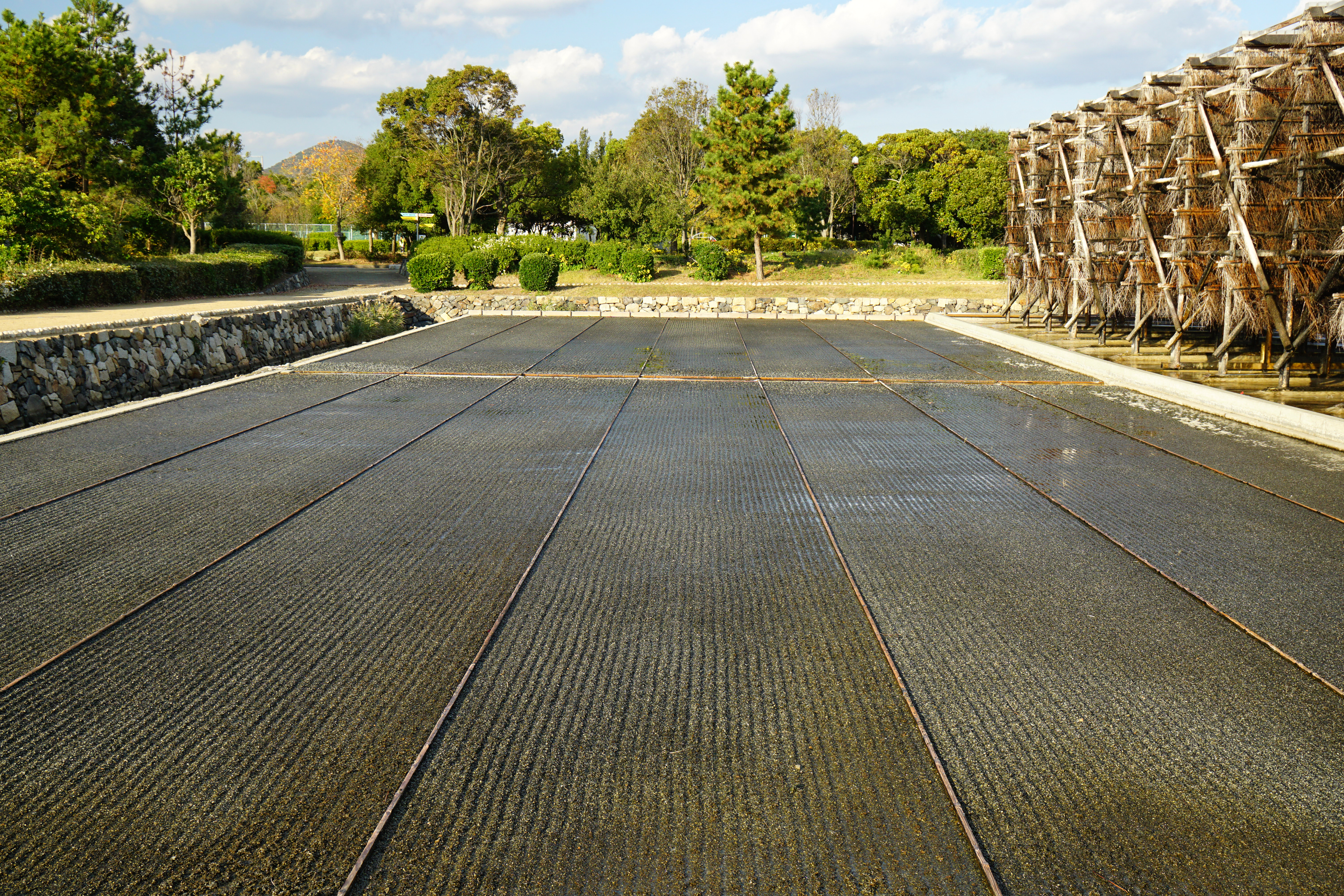 Ako Marine Science Museum in Ako, Hyogo prefecture, Japan.